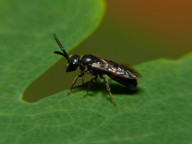 Sphecodes ephippius, male. Location: Wageningen - Plasserwaard (The Netherlands)